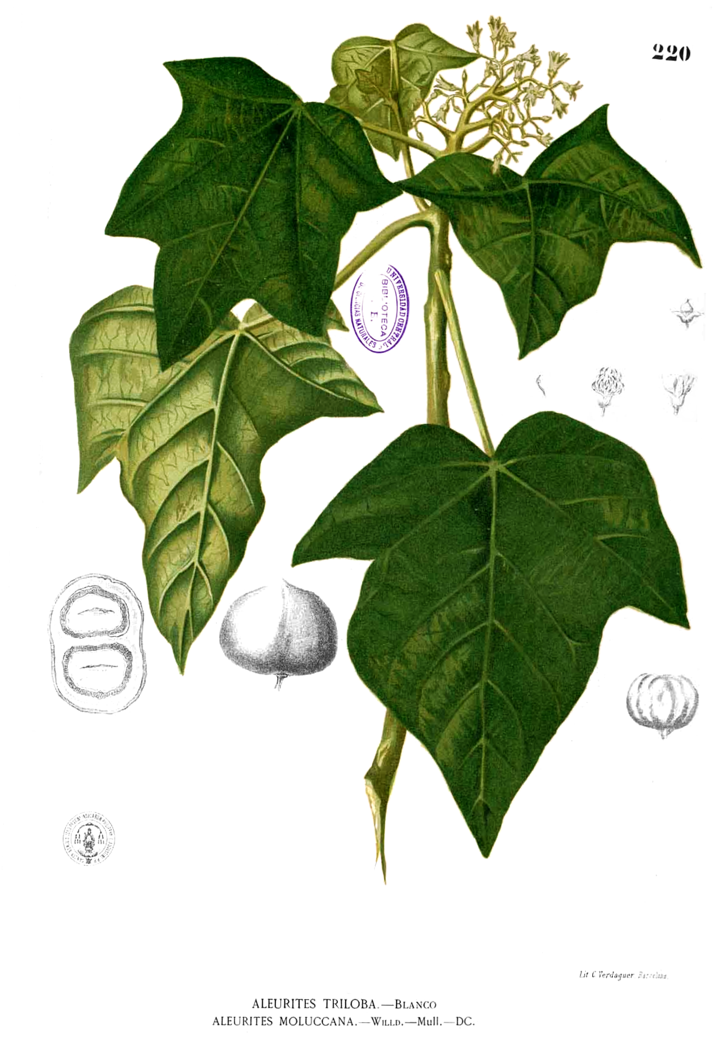 Plate from book